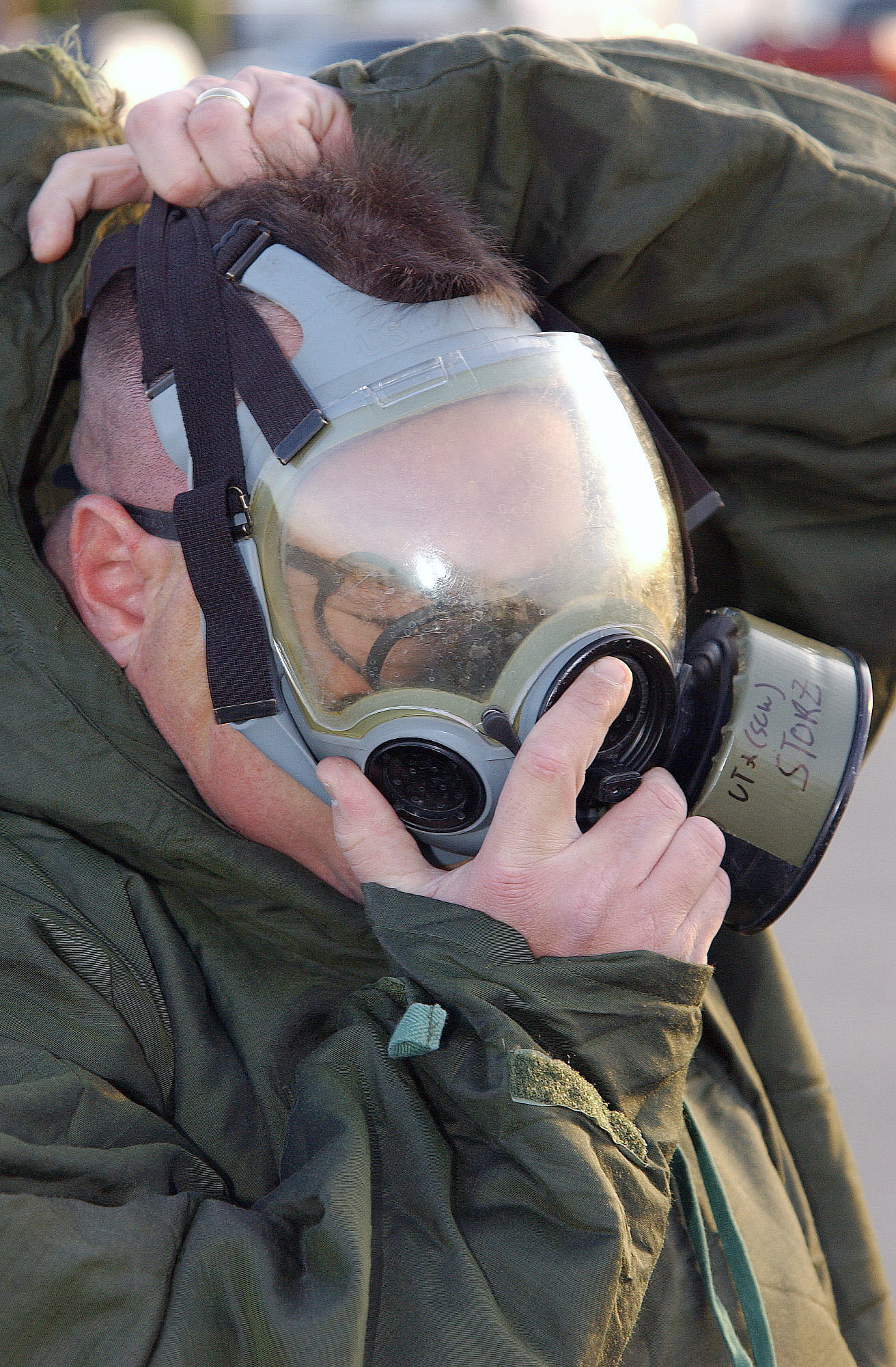 Naval Base Ventura County, Calif. (Feb. 4, 2003) – A Seabee assigned to the “Fighting Forty” of Naval Mobile Construction Battalion Four Zero (NMCB-40) dons his Gas Mask (MCU-2/P) during a Chemical Biological and Radiological (CBR) drill. NMCB-40 is homeported in Naval Base Ventura County, Calif. and is conducting various training exercises. U.S. Navy photo by Photographer's Mate Airman Lamel J. Hinton. (RELEASED)